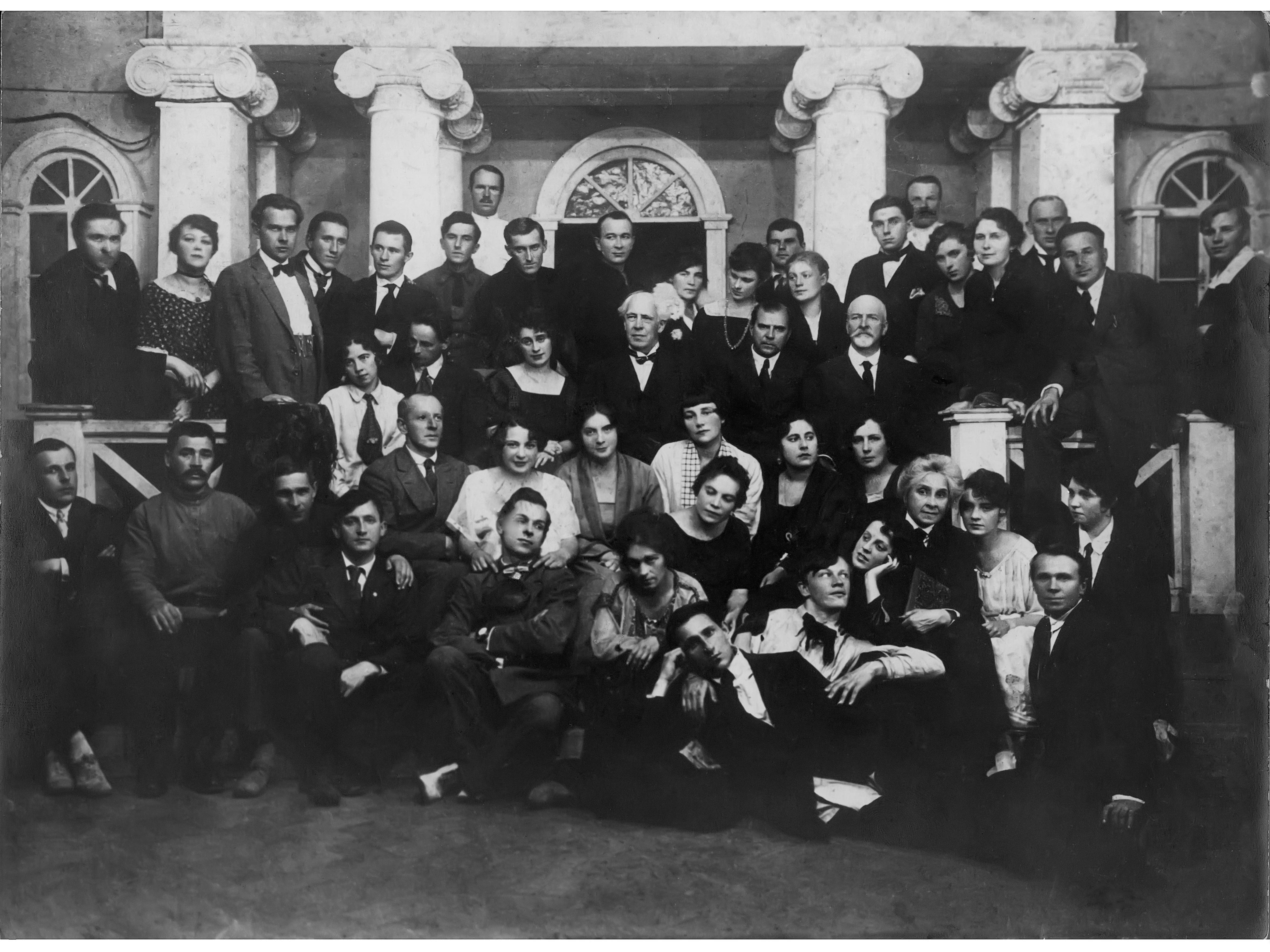 Stanislavskiy with actors, 1922